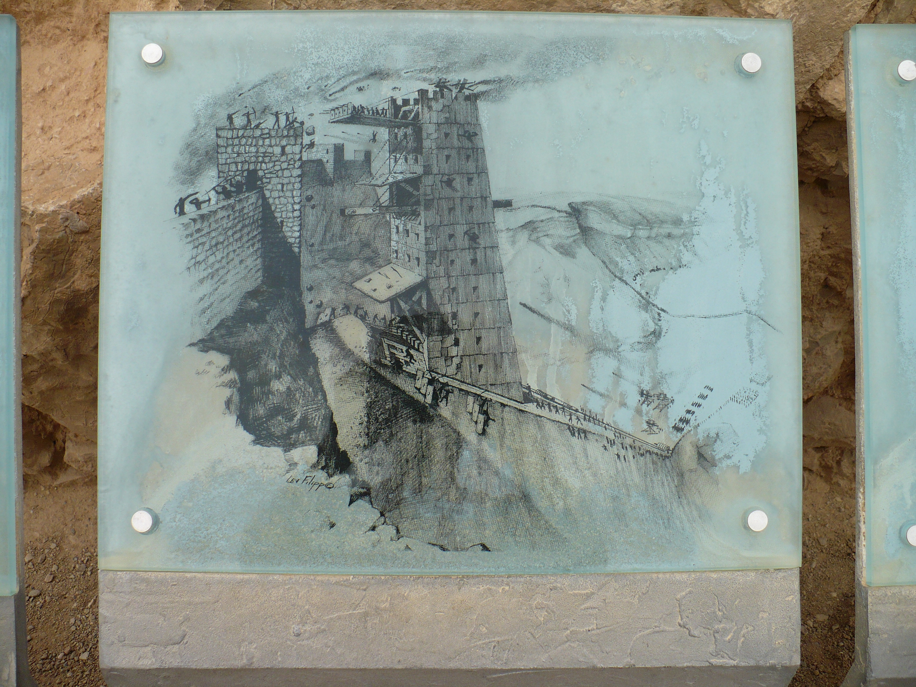 Siege tower